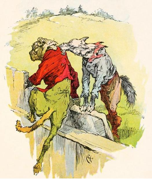 An illustration of the fable of The Dog and the Wolf by J. M. Condé, published in New York in 1905